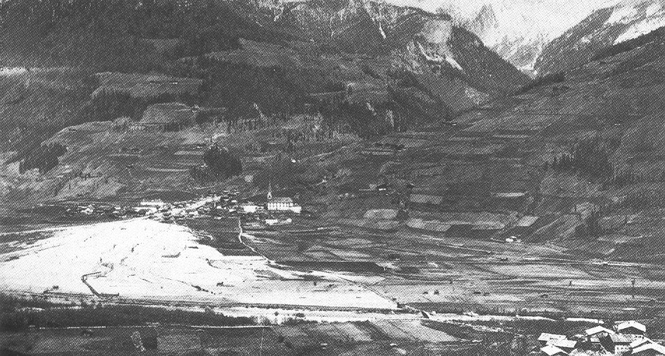 Matrei in Osttirol after the outbreak of the Bretterwandbach 1895